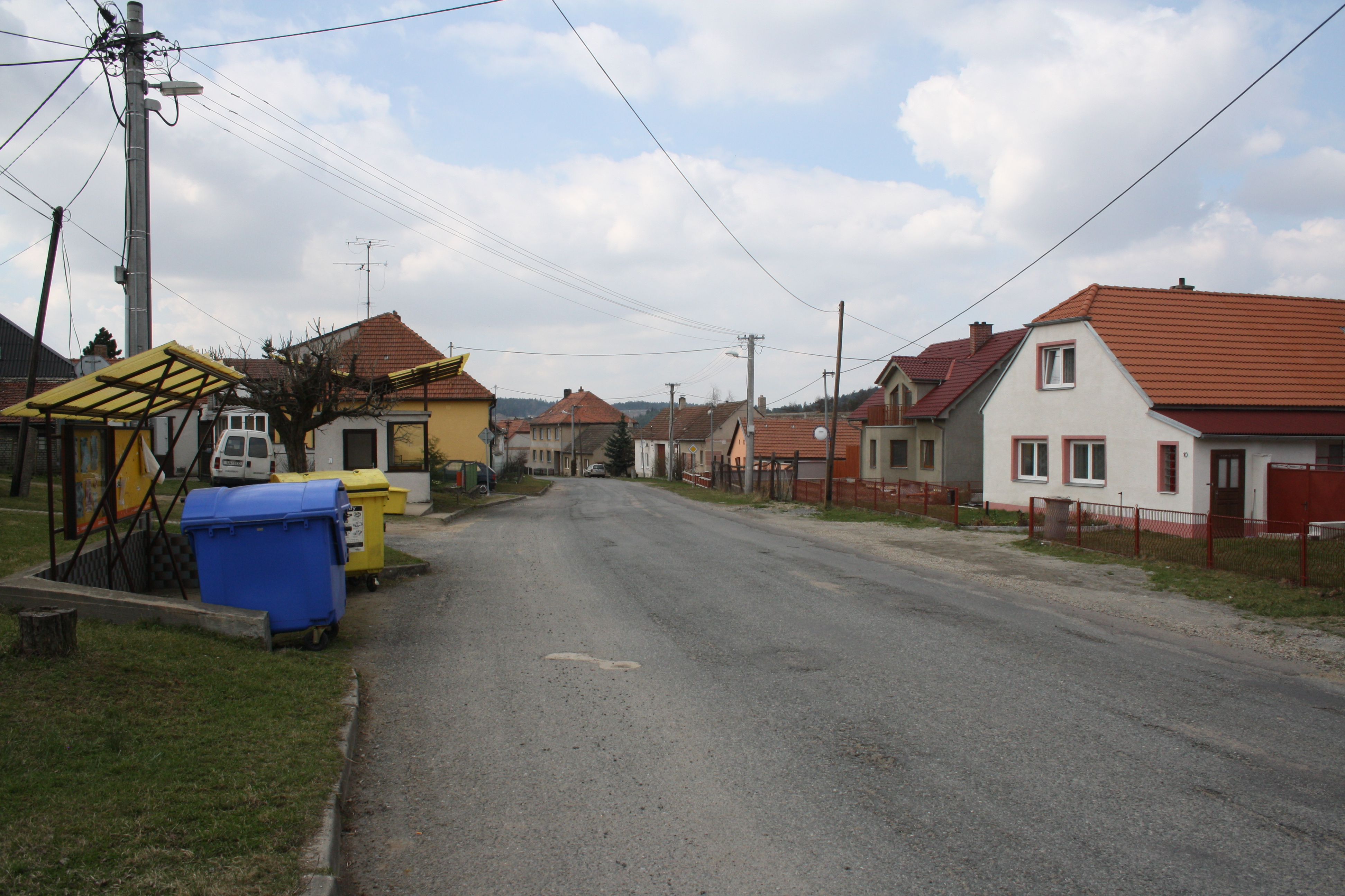 Center of Ostašov, Třebíč District.